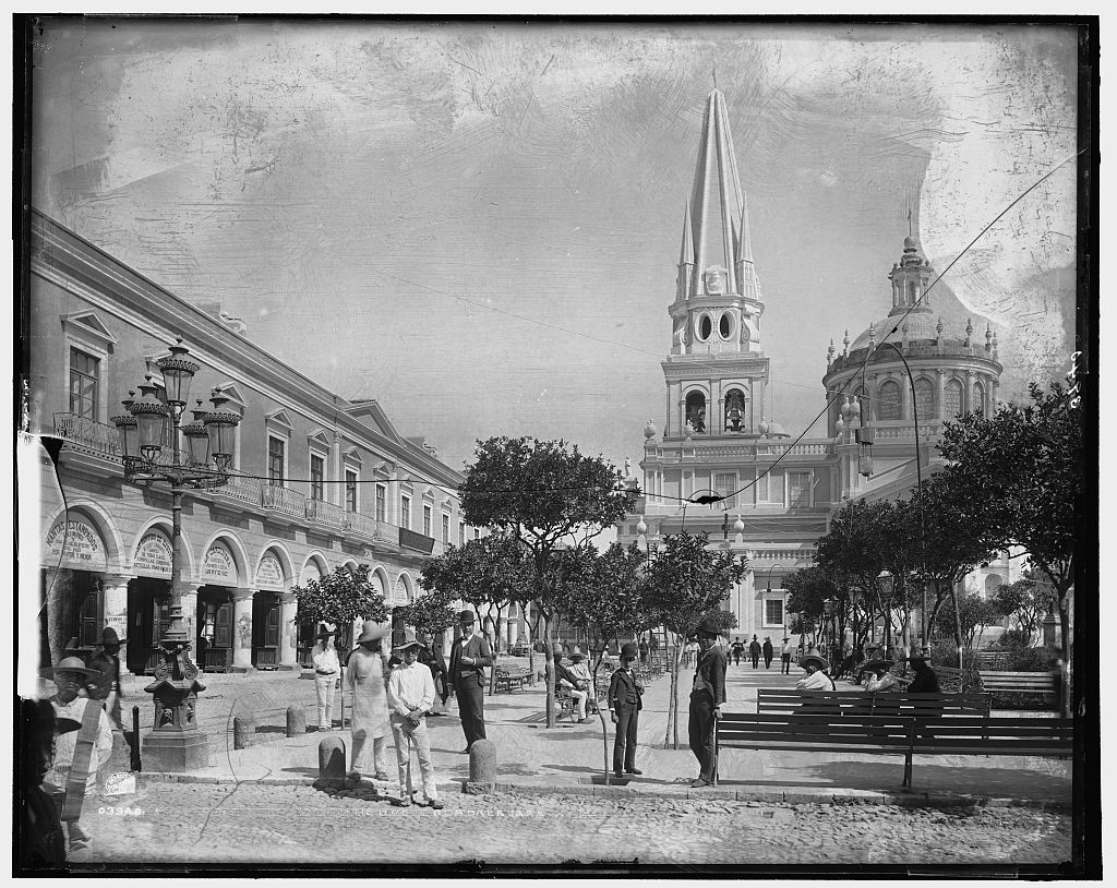 Plaza de Armas and cathedral, Guadalajara, Jalisco, Mexico in the late 19th century.